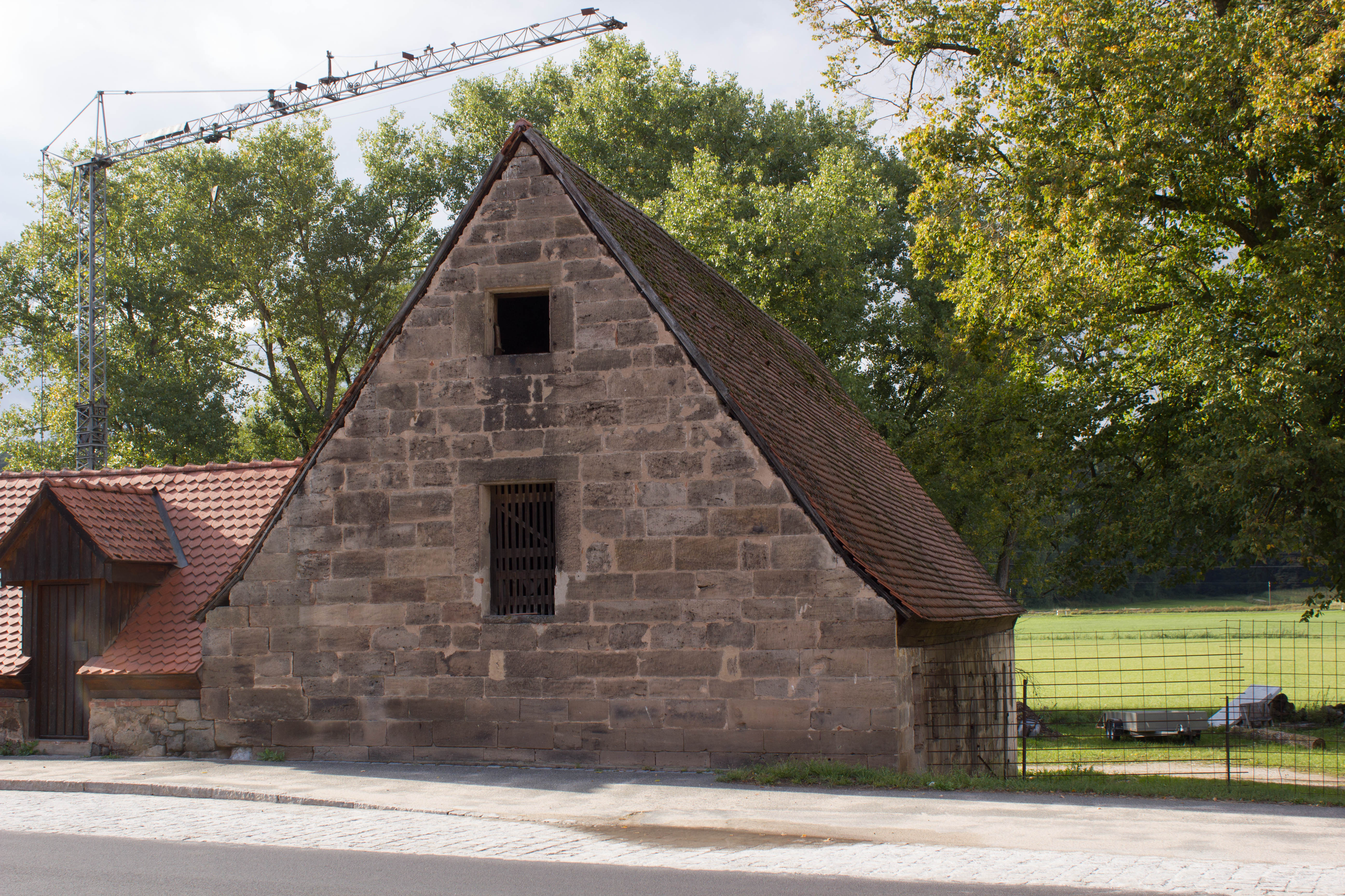 Langenzenn Heinersdorf, Äußere Windsheimer Strasse 50